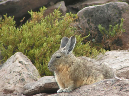 Viscacha (Lagidium viscacia) in the National Park Lauca, Chile